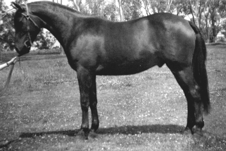 One of the better types of brumbies that was caught in the Apsley River Gorge, now in the Oxley Wild Rivers National Park. He was badly malnourished when captured.